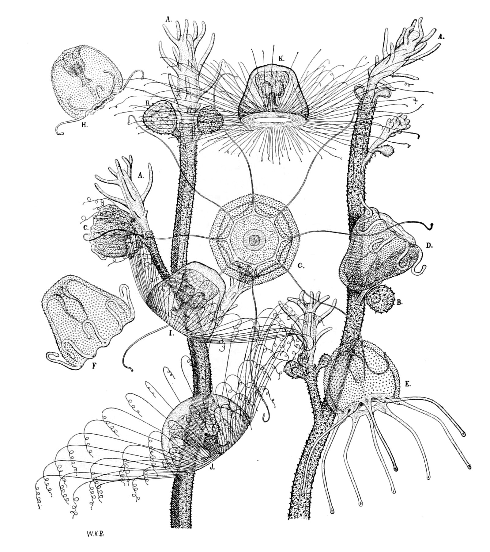 Turritopsis nutricola, hydroid and young medusa.